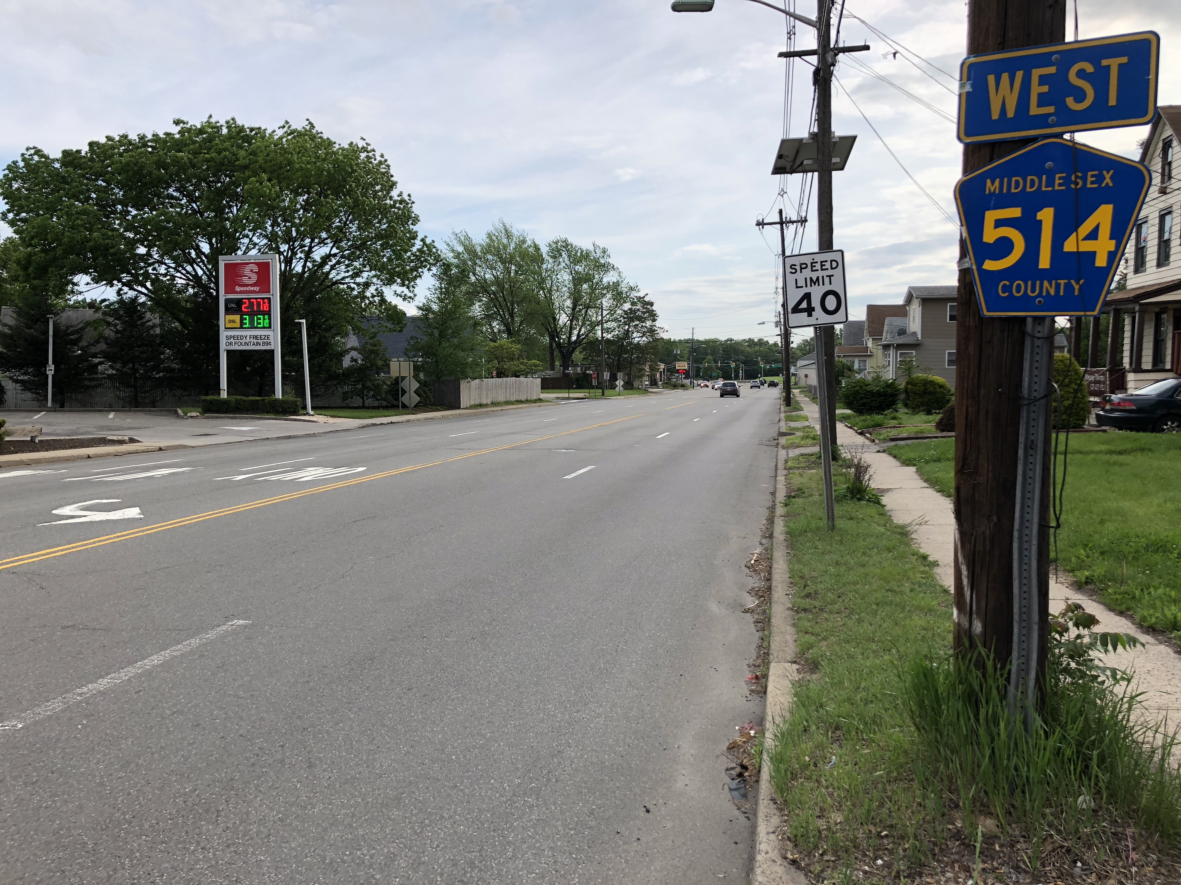 View west along Middlesex County Route 514 (Woodbridge Avenue) just west of Middlesex County Route 501 (Amboy Avenue) in Edison Township, Middlesex County, New Jersey